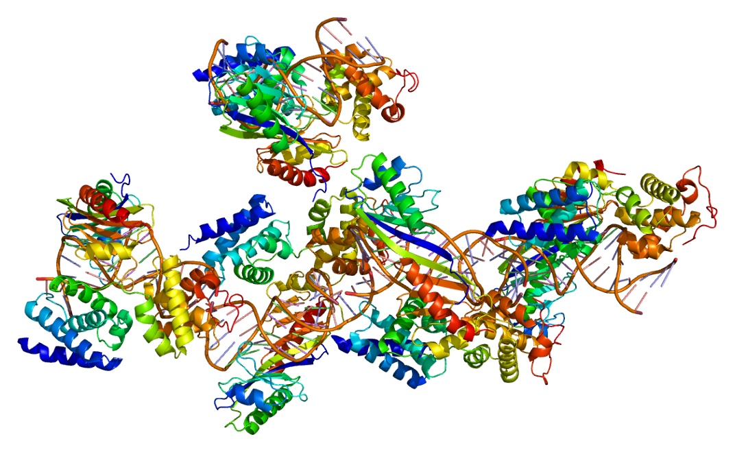 Structure of the GTF2B protein. Based on PyMOL rendering of PDB 1c9b.